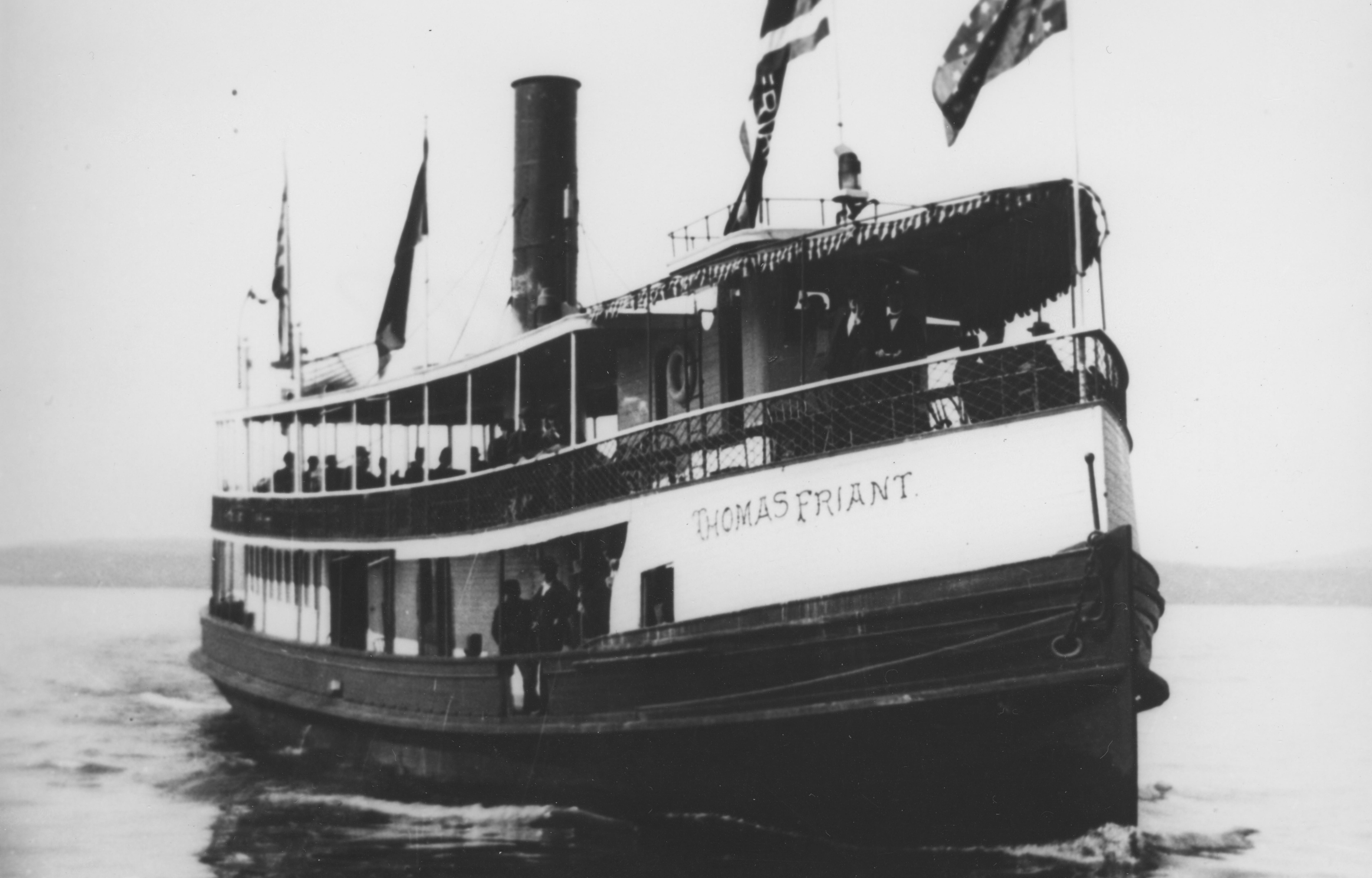 The ferry Thomas Friant before 1910